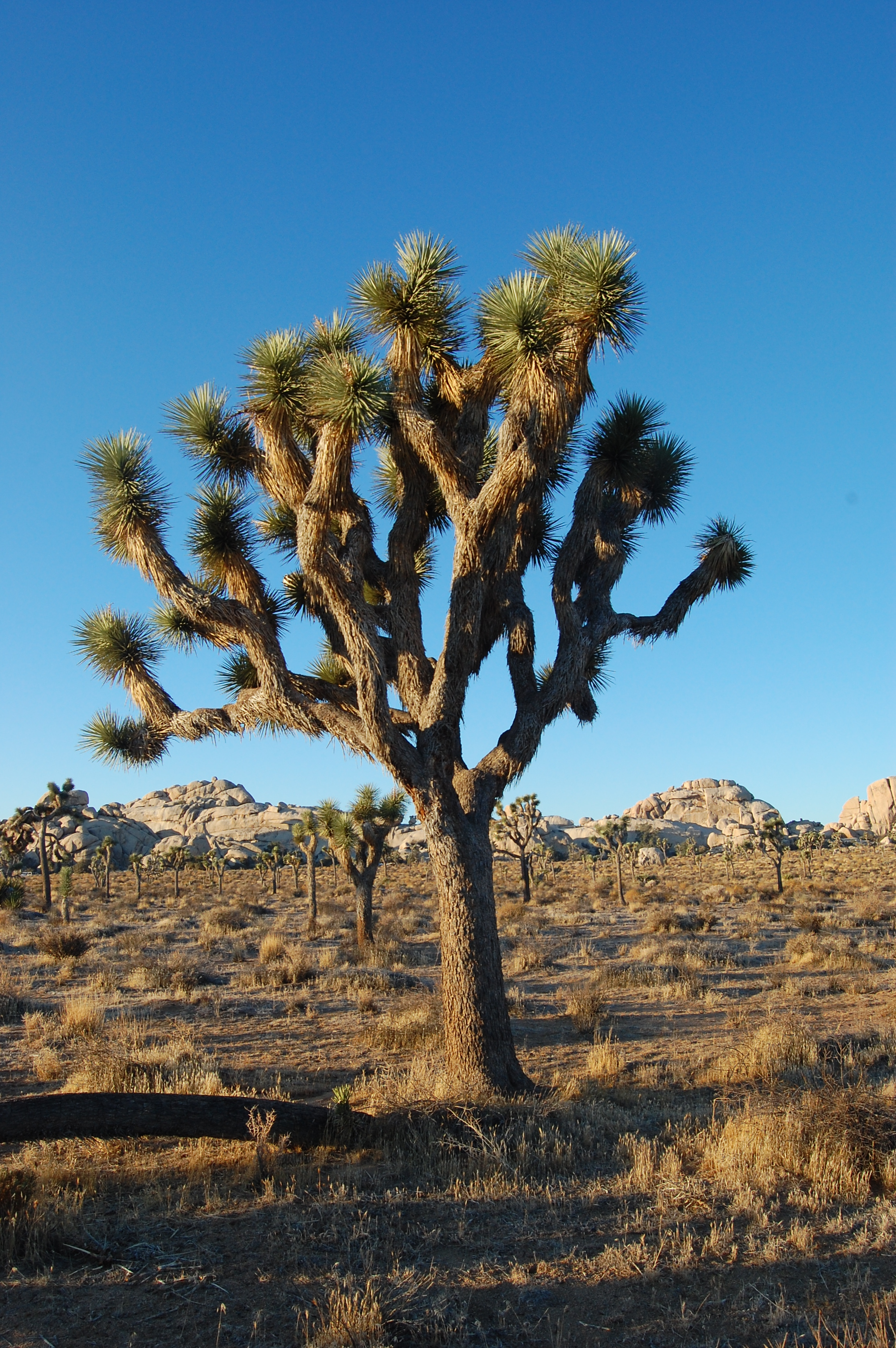 Joshua Trees (Yucca brevifolia) at sunrise in Joshua Tree National Park: Hidden Valley Campground